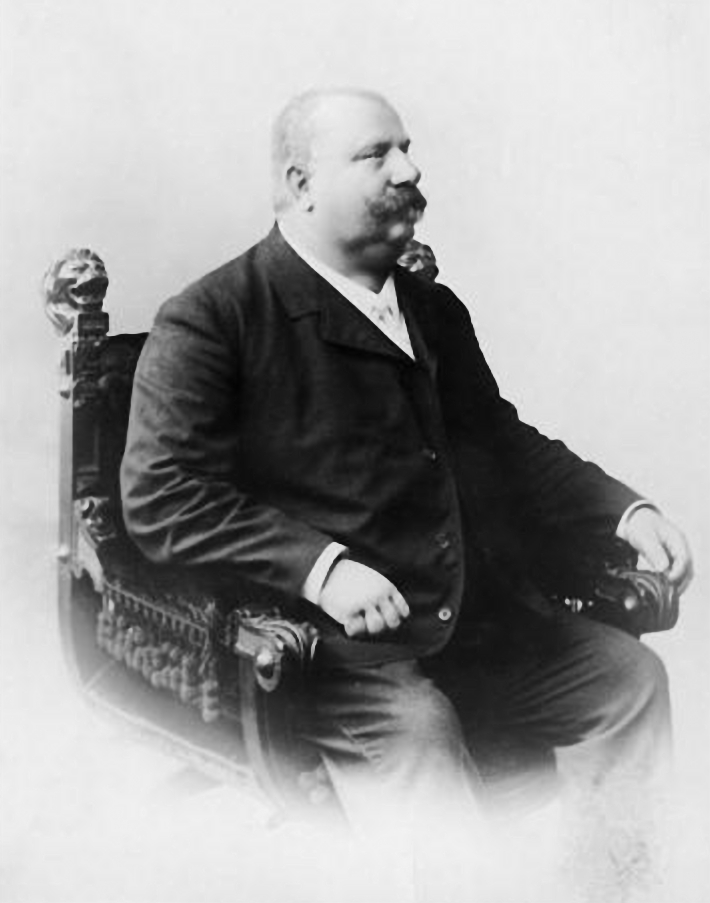 The Royal Prussian executioner (deutsch: Scharfrichter) Lorenz Schwietz (1850-1925).